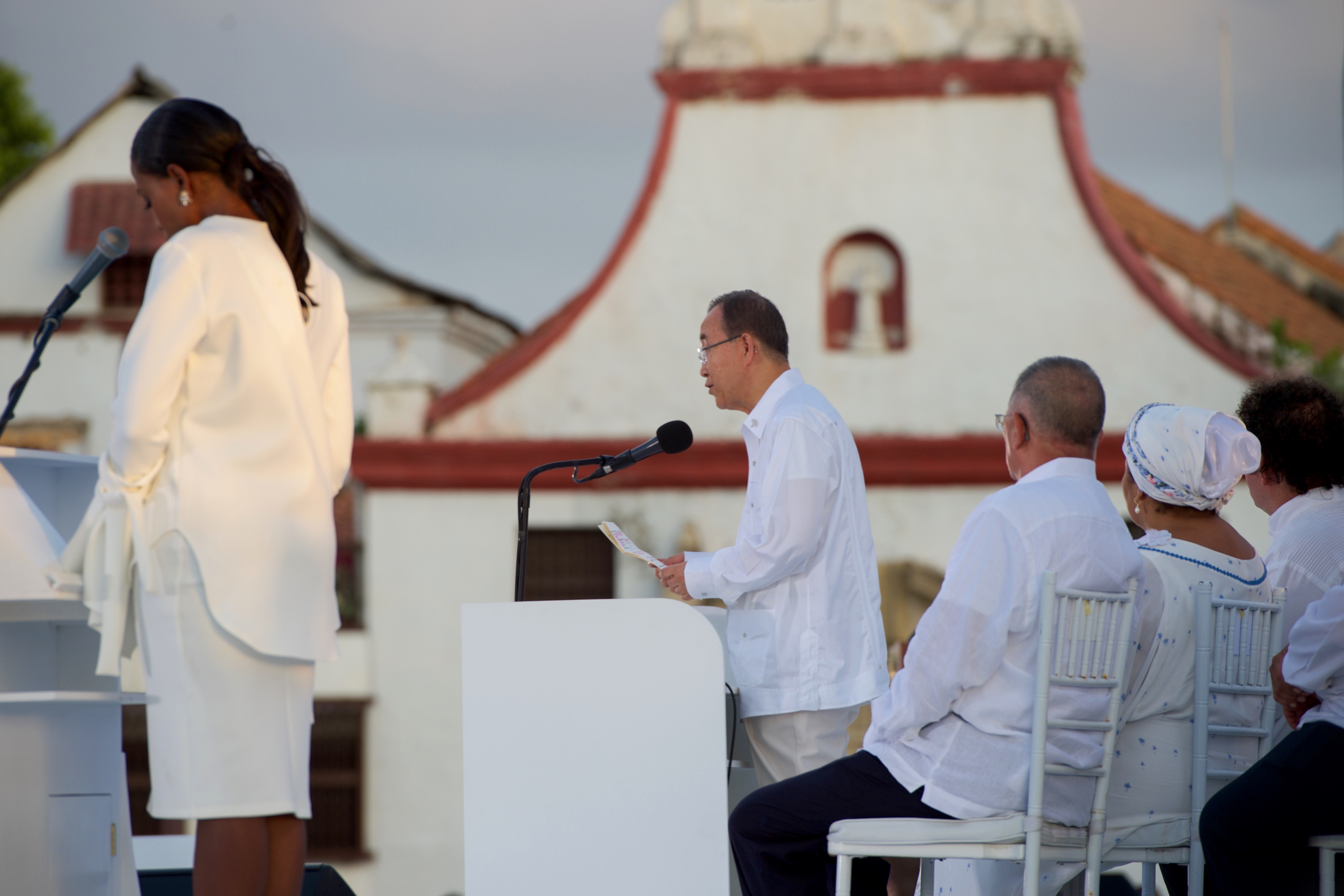 United Nations Secretary-General Ban Ki-moon addresses the crowd after Colombian President Juan Manuel Santos and FARC leader Timoleón Jiménez signed a peace accord as U.S. Secretary of State John Kerry sat in a plaza outside the Cartagena Indias Convention Center in Cartagena, Colombia, on September 26, 2016, while attending a peace ceremony between the government and the Revolutionary Armed Forces of Colombia (FARC) that ended a five-decade conflict. [State Department Photo/Public Domain]